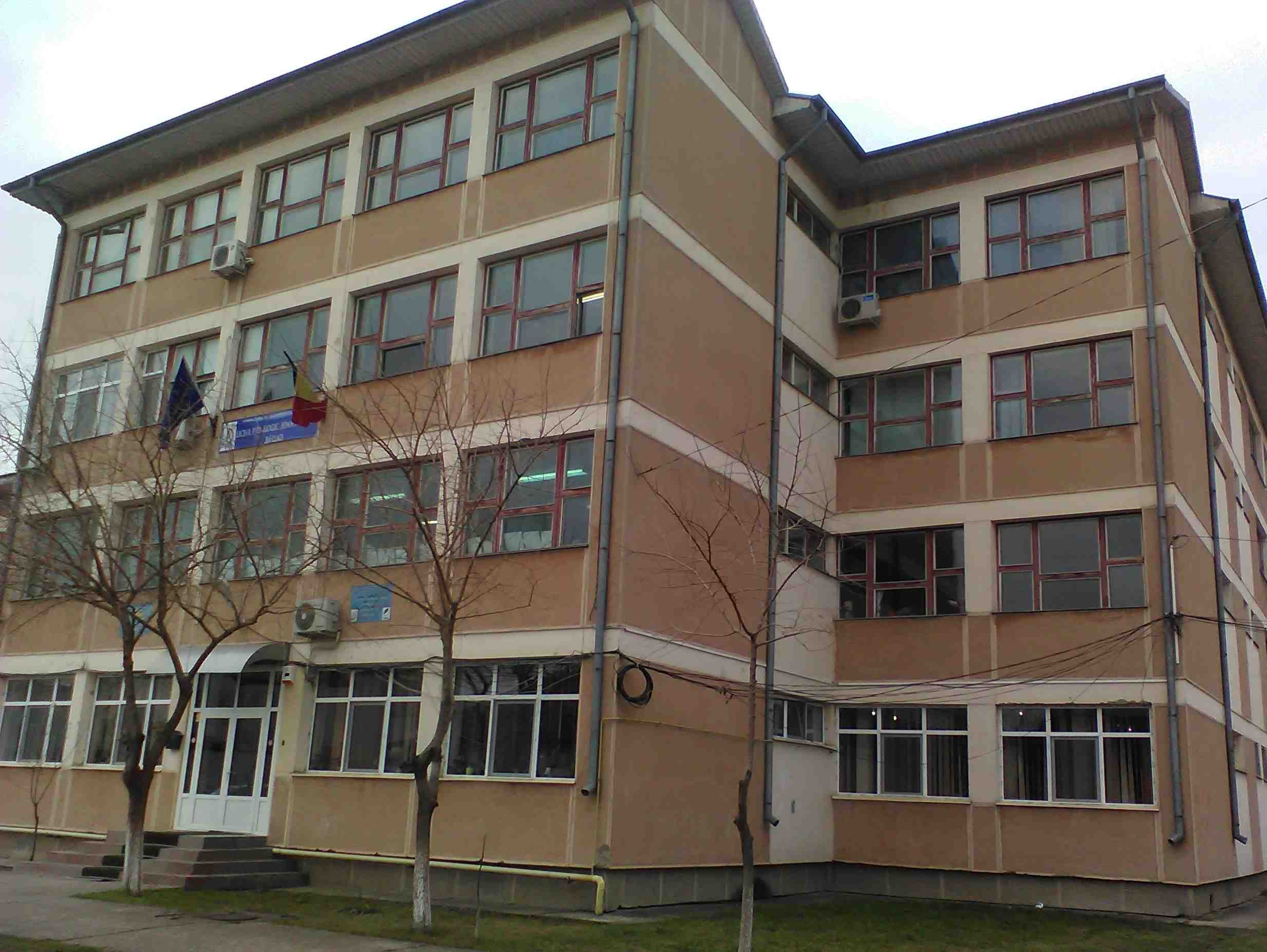 Actualul sediu